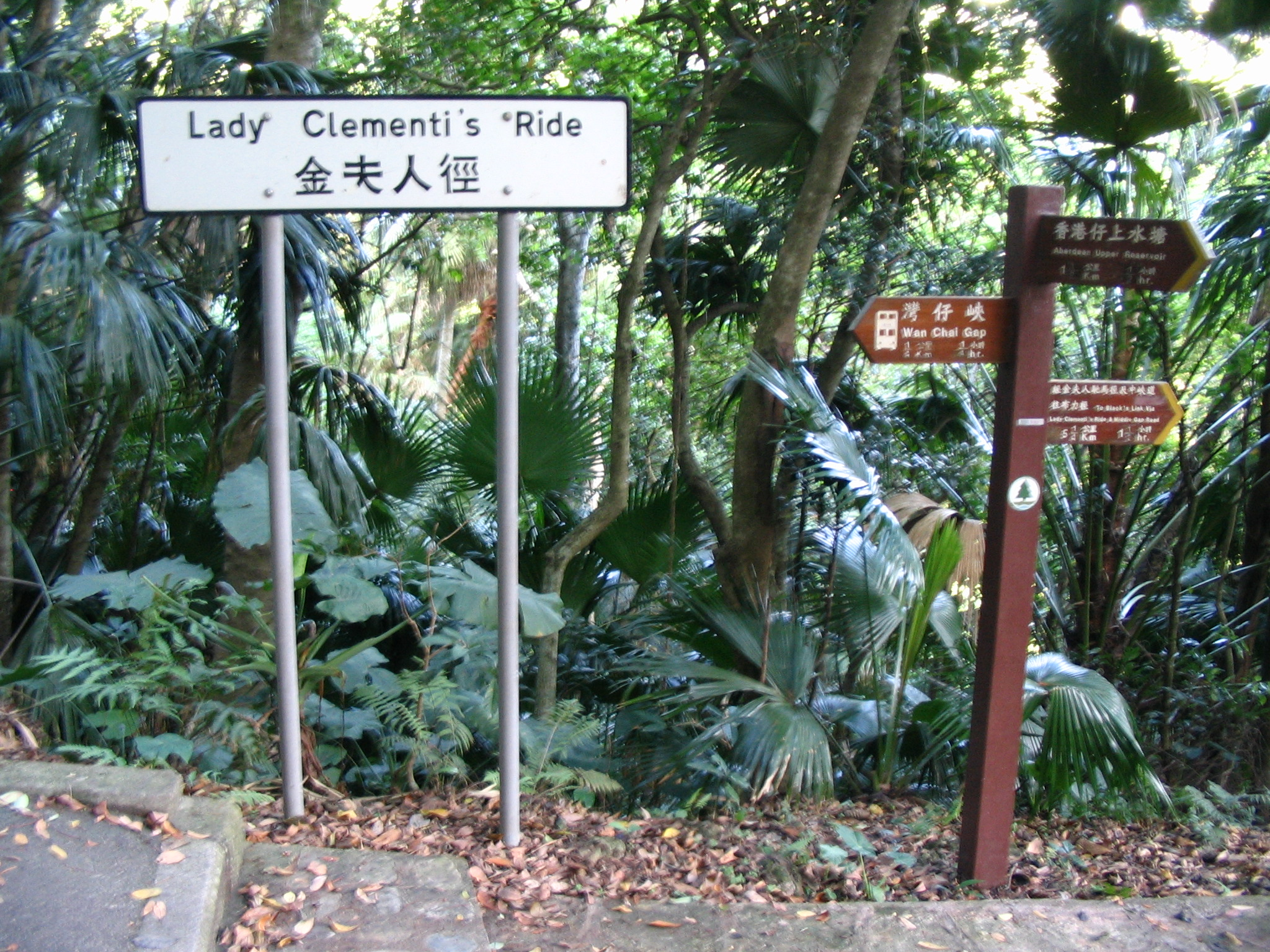 Photo of Lady Clementi's Ride